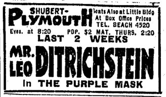 Advertisement for Plymouth Theatre, Boston, Massachusetts, USA